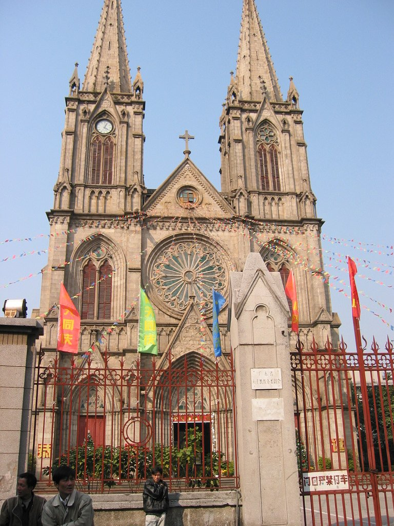 Sacred Heart Cathedral of Shíshì, Guangzhou, Guangdong, People's Republic of China